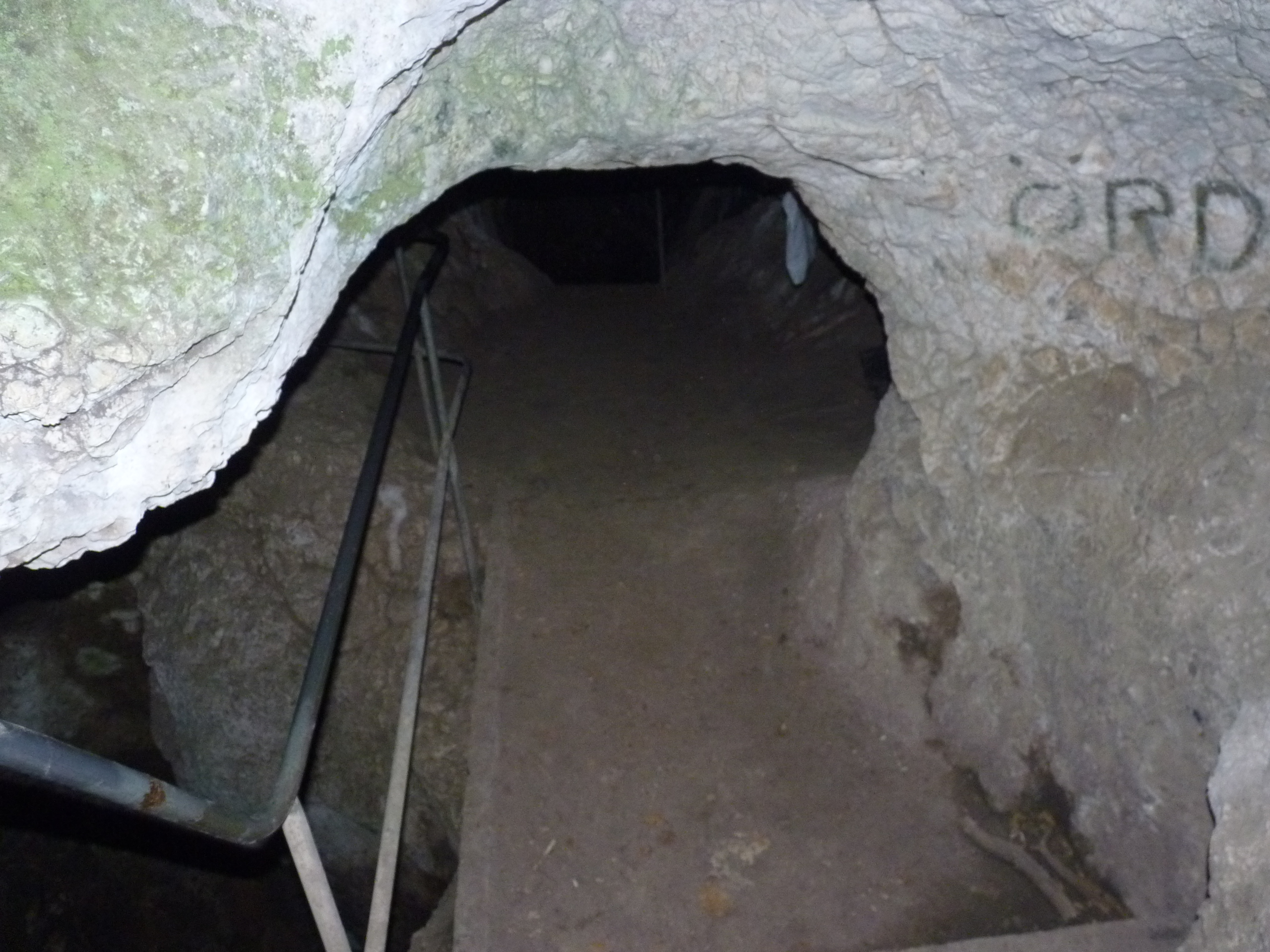 Solymár Cave insight